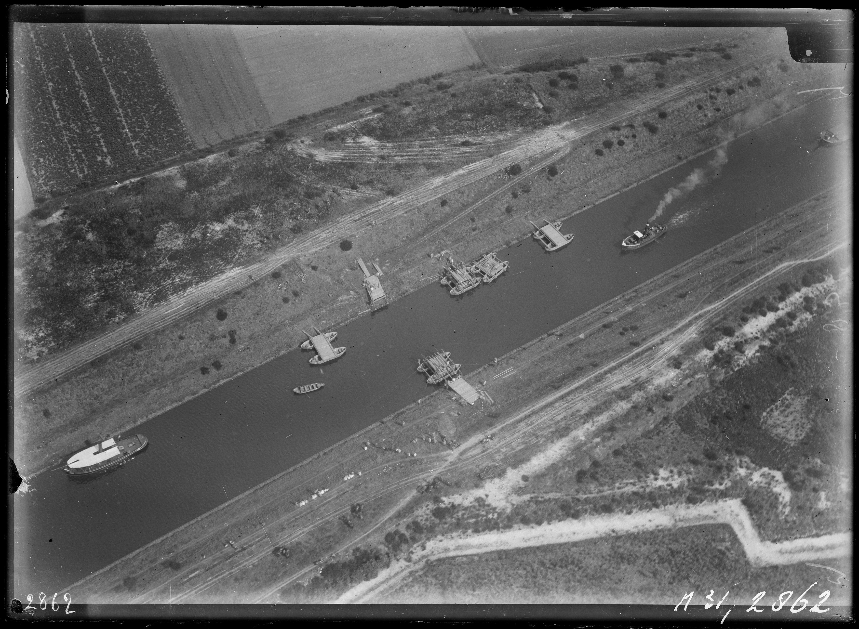 Aerial photograph of Terheijden, Markkanaal in The Netherlands. See same location File:NIMH - 2011 - 2056 - Aerial photograph of unknown location, The Netherlands.jpg.